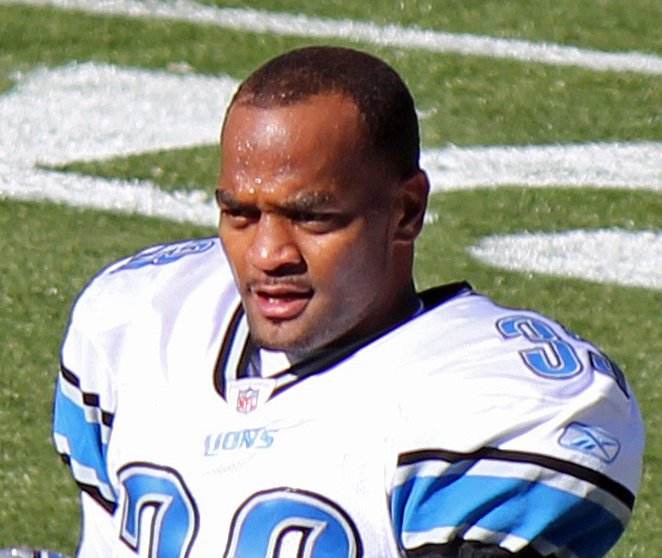 Brandon McDonald, a player on the National Football League.